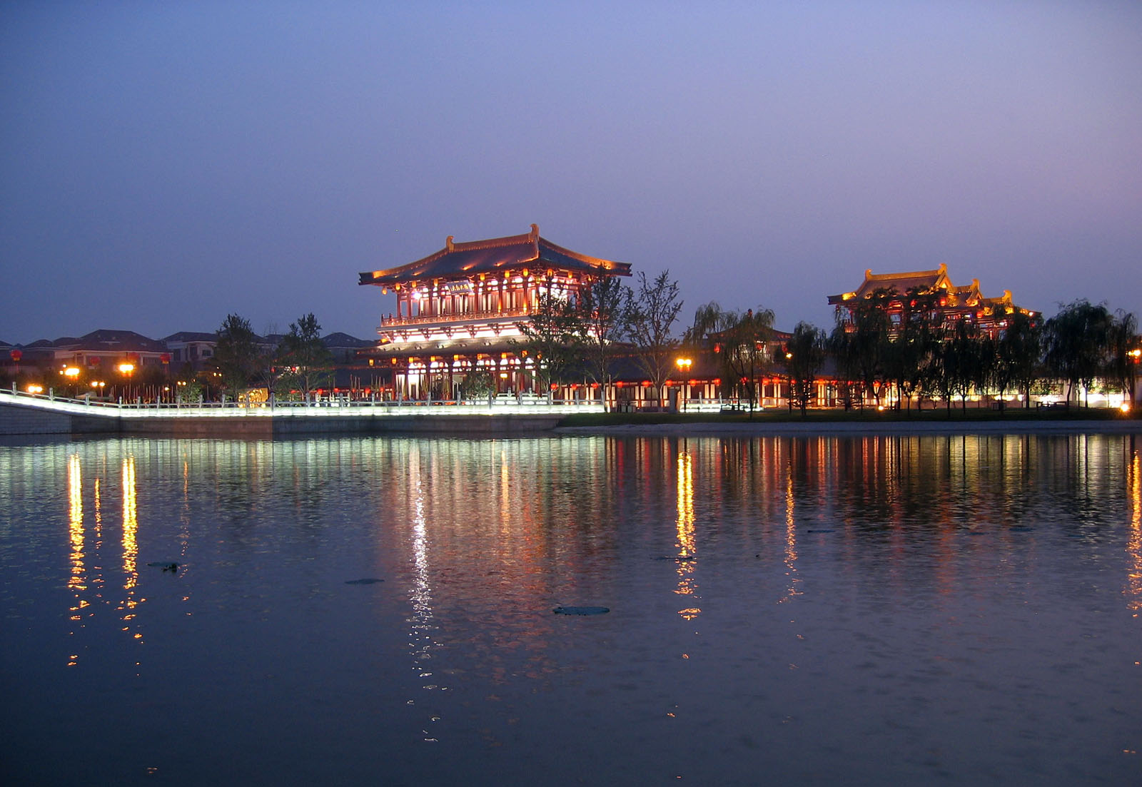 View of Xi'an